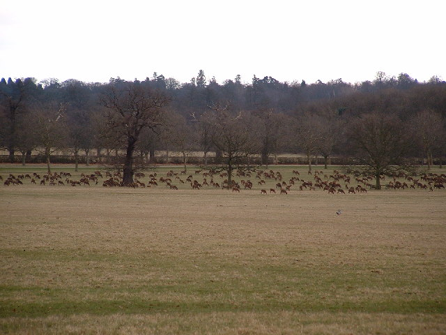 Deer in Windsor Great Park. These deer are in the 'review ground' in Windsor Great Park. The photo was taken looking ESE from the ride next to the access road.